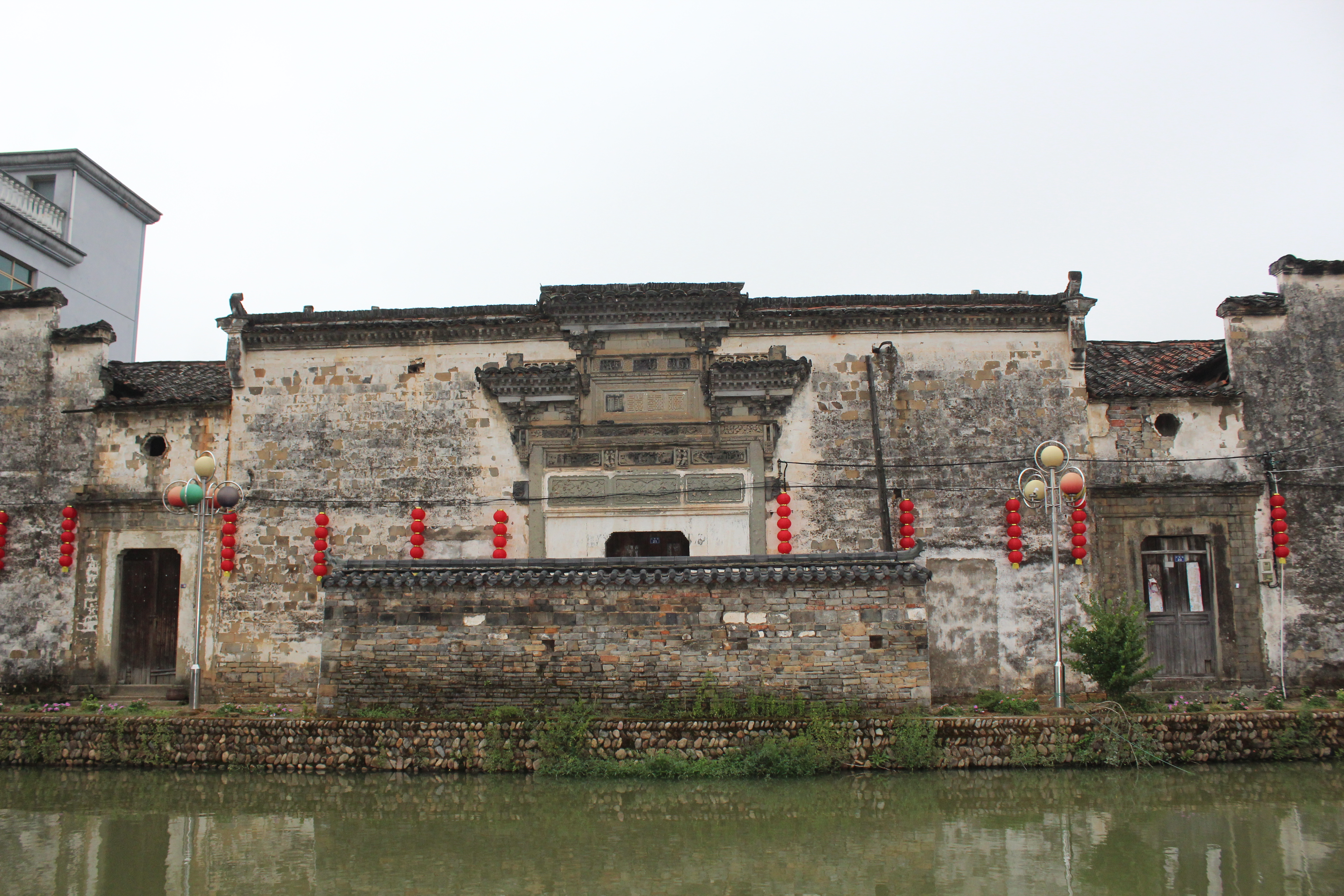 Photo of a historical building in Shangjing